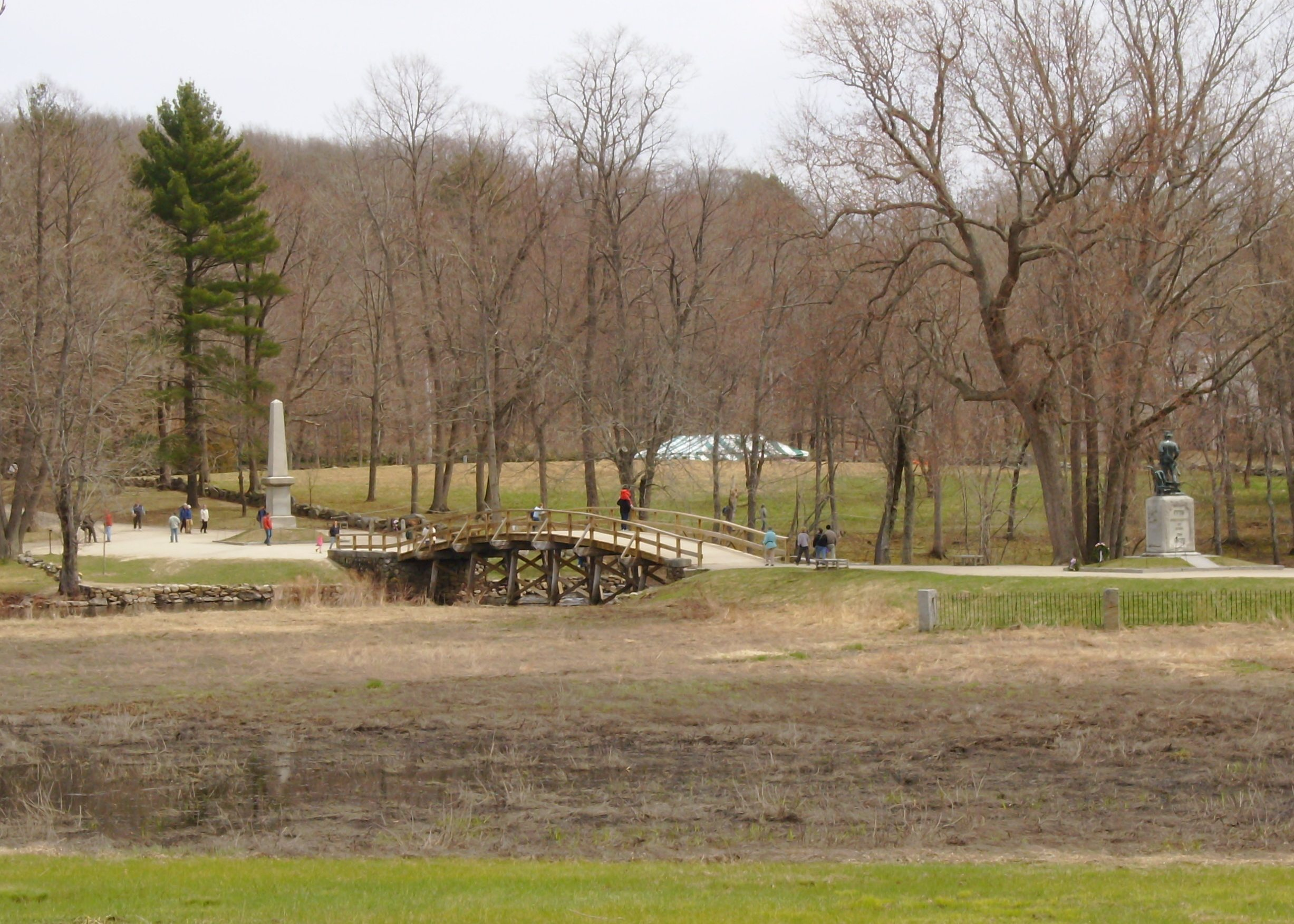 Old North Bridge in Concord, Massachusetts, site of a battle between colonial militia and British Regulars on April 19, 1775